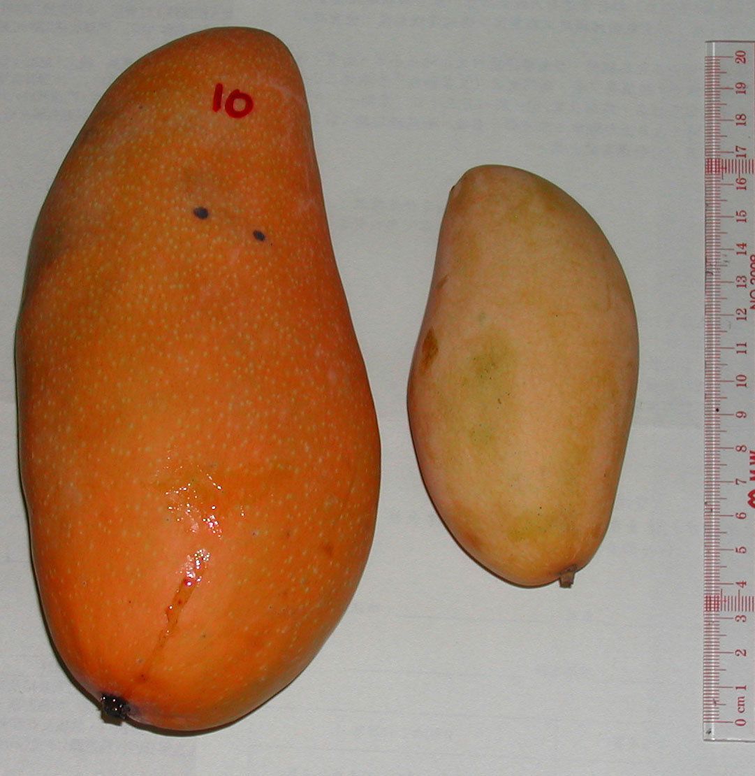 Large mango compared to a smaller golden mango.